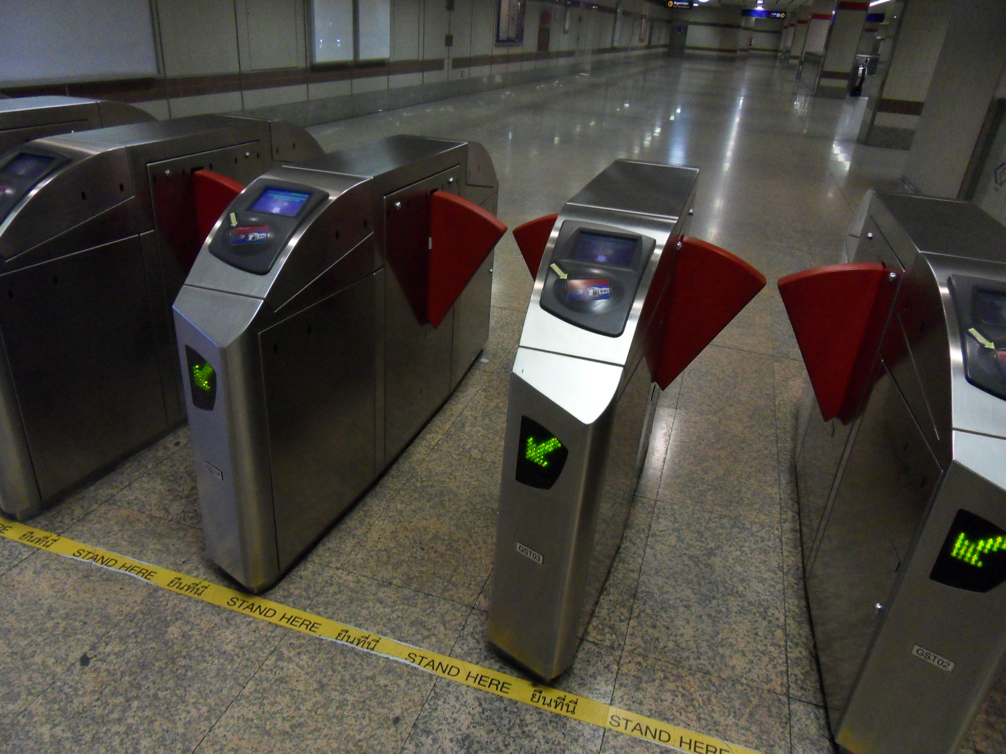 Turnstiles in Bangkok metro